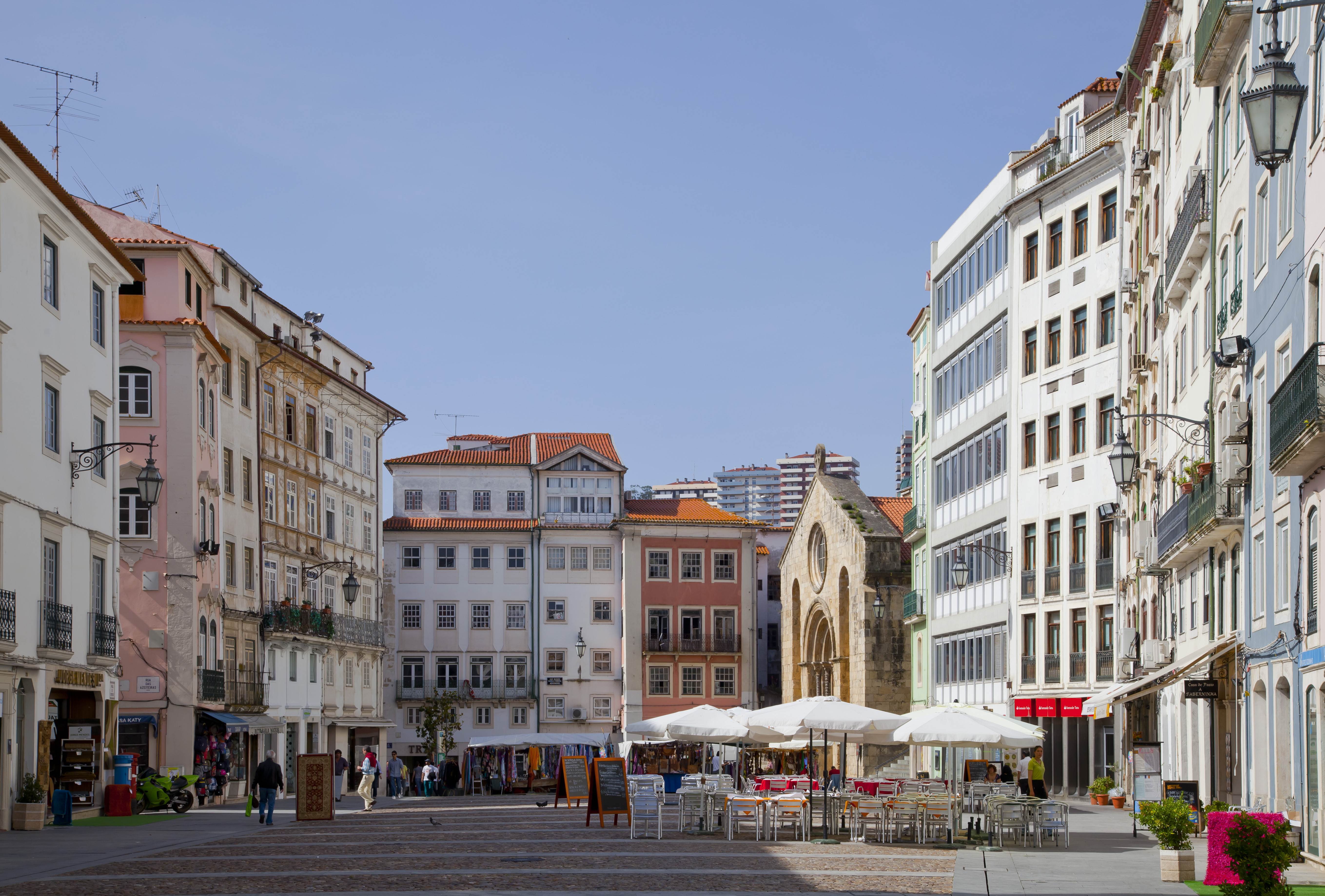 Comerce Square, Coimbra, Portugal